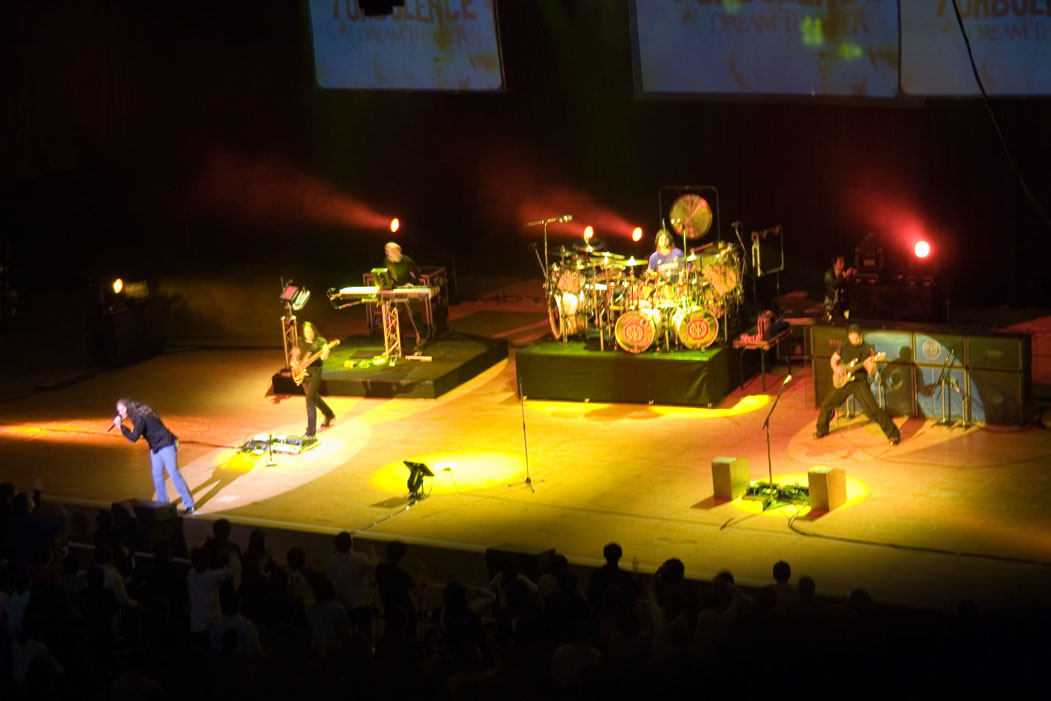 Dream Theater tijdens hun Octavarium world tour 2006